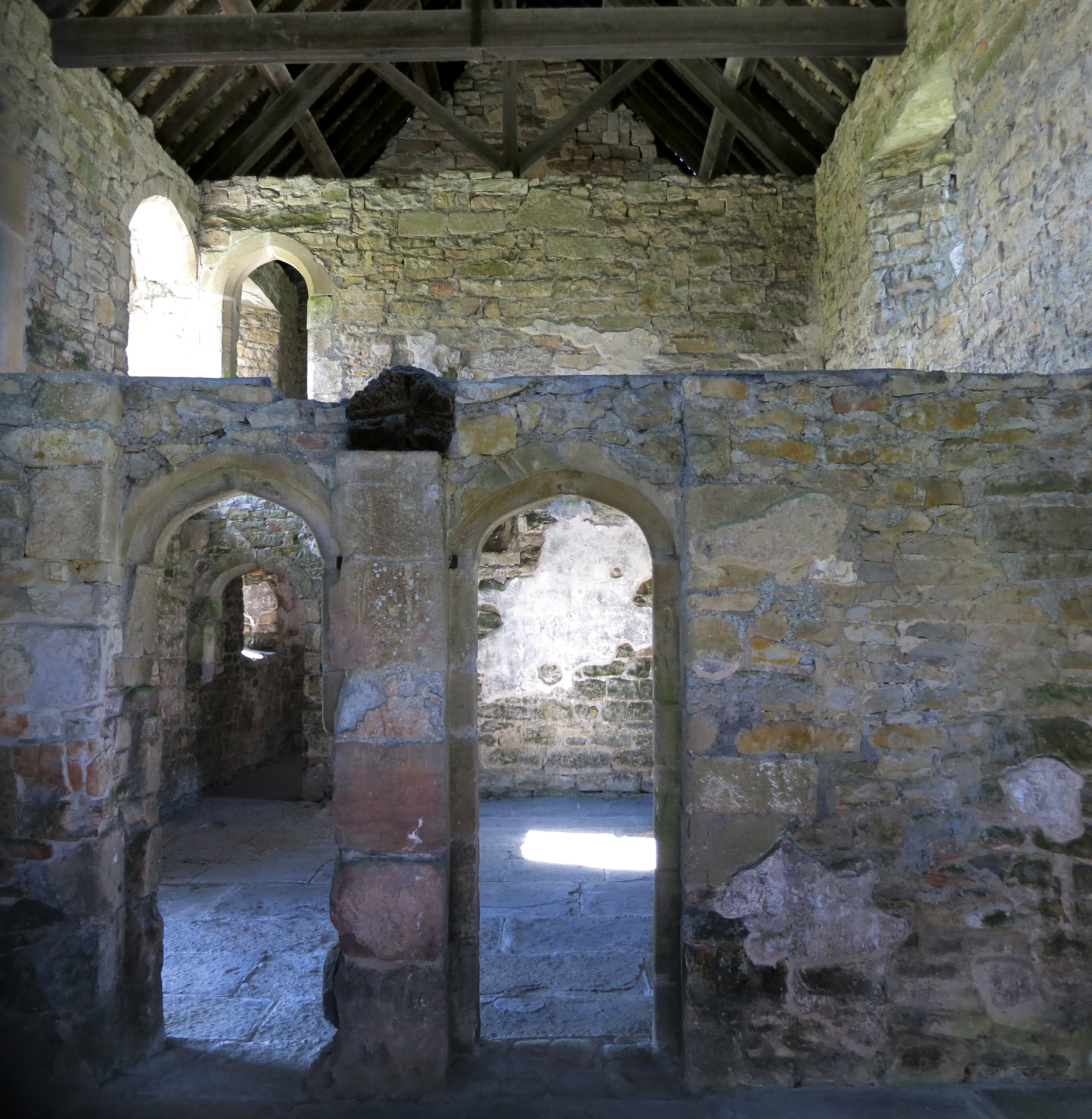 Inside the Fish House